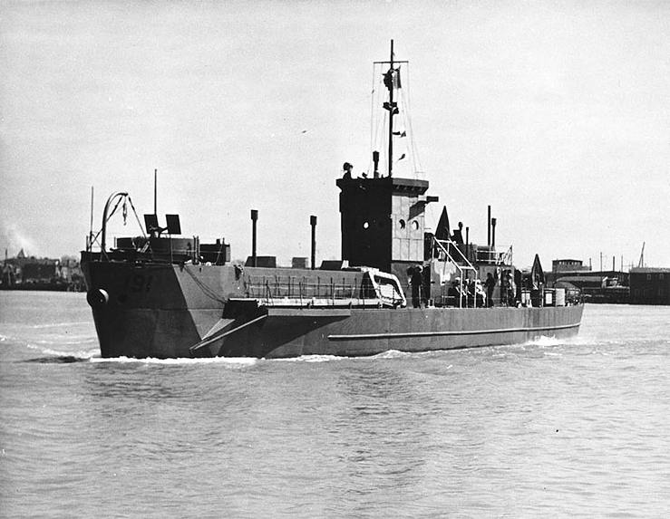 The U.S. Navy USS LCI(L)-191 underway in a harbour, probably on the U.S. East Coast, circa February-March 1943.